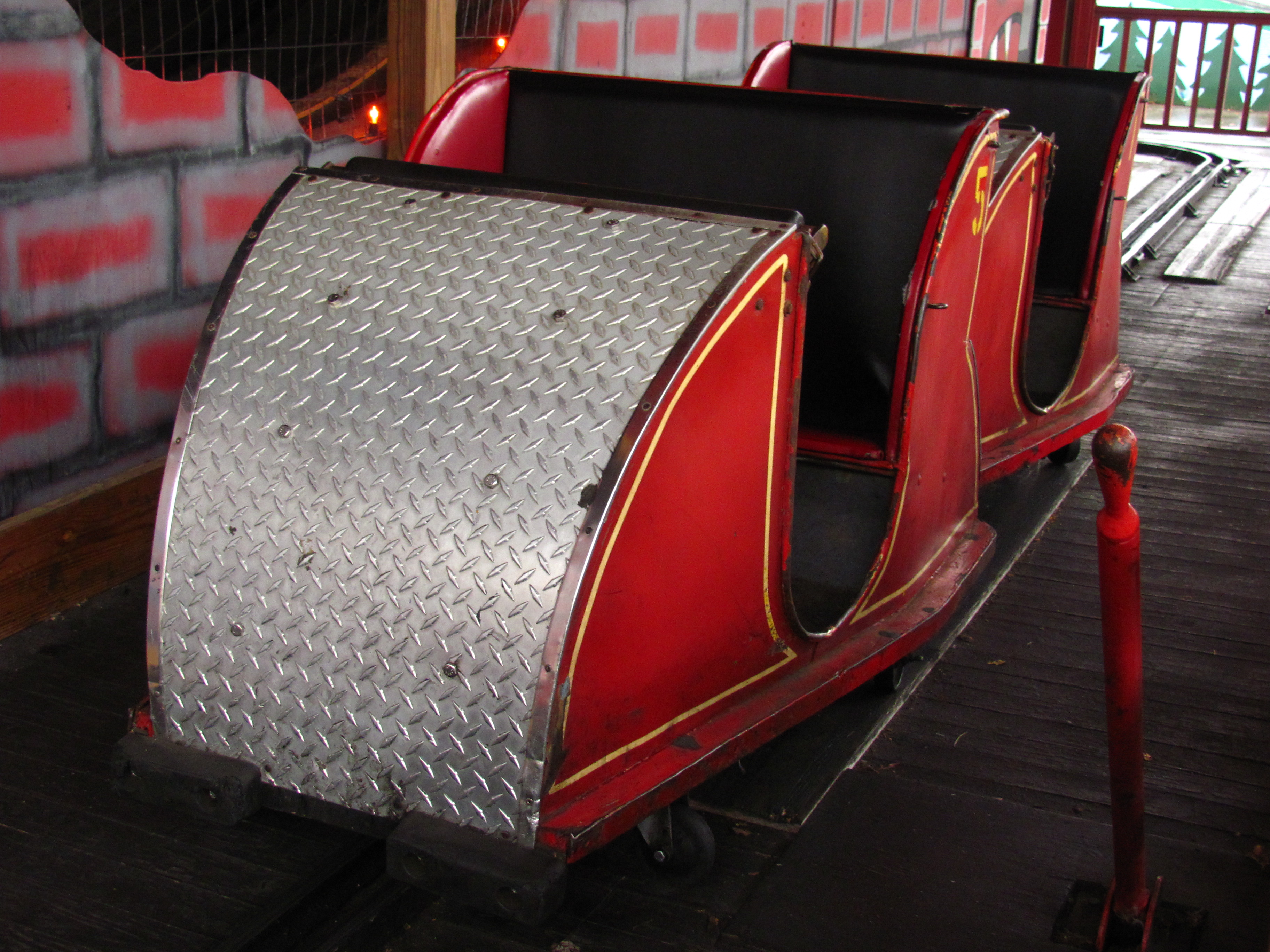 The Devil's Den